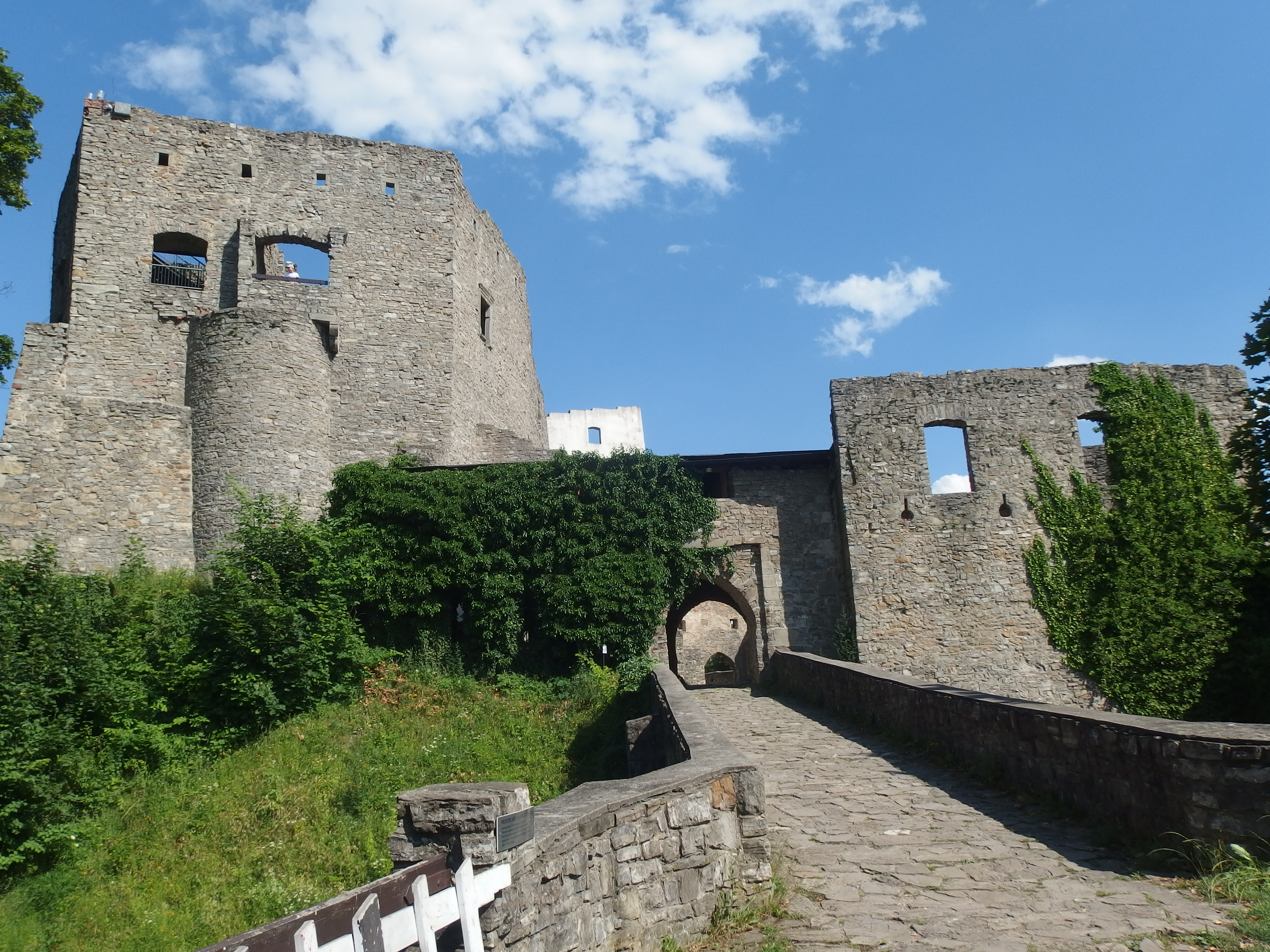 Hukvaldy, Frýdek Místek District, Czech Republic. Castle.